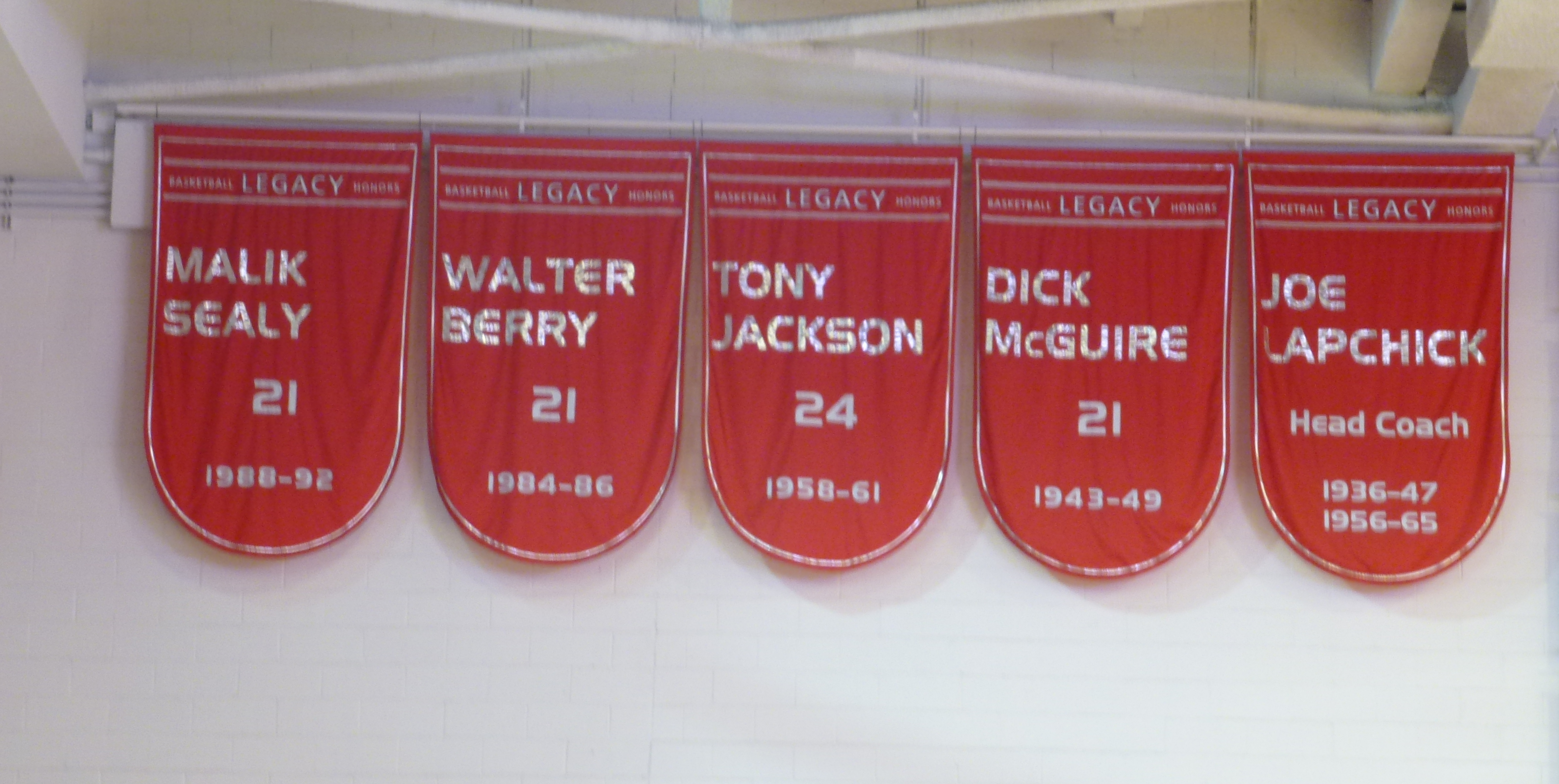 Retired numbers of notable St. John's basketball players and head coach, hanging on the wall of Carnesecca Arena on the campus of St. John's in Queens NY.